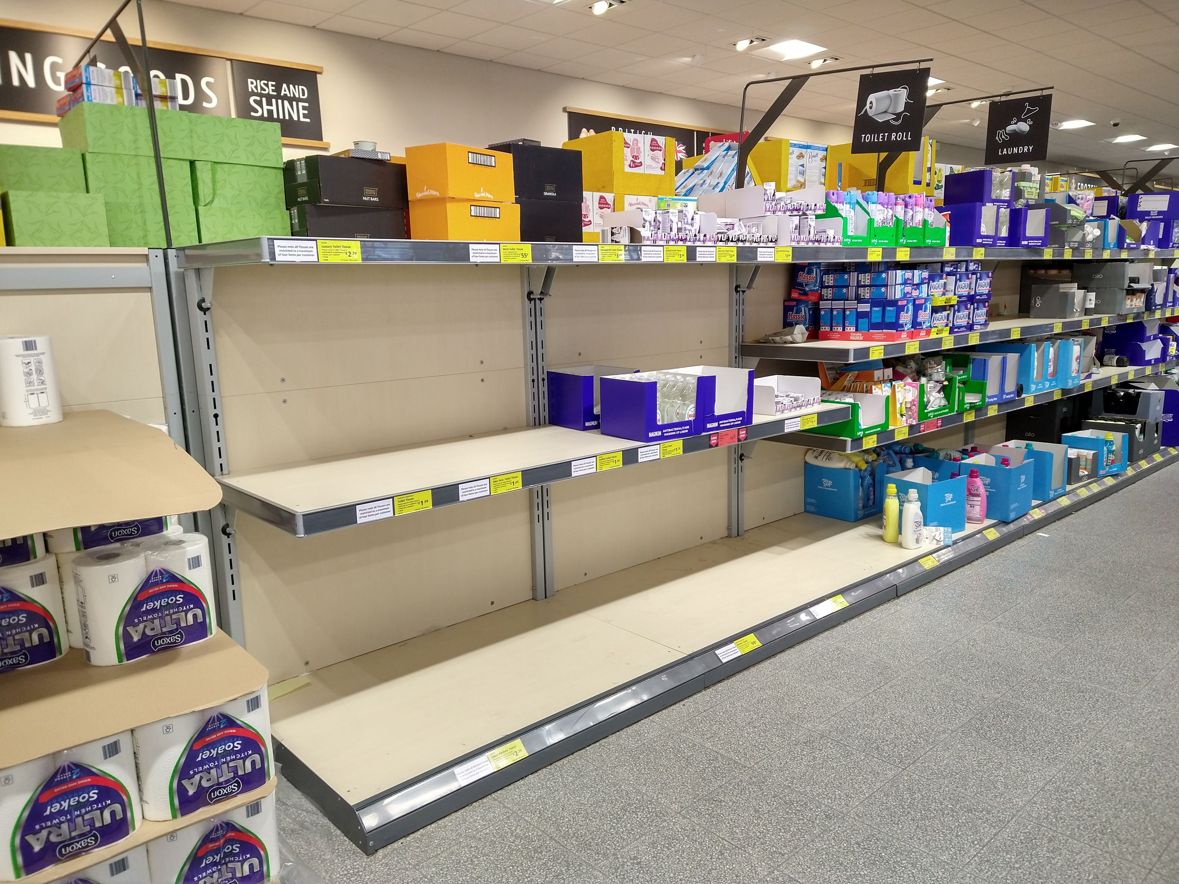 Shortages in ALDI East Barnet during the Coronavirus Covid 19 outbreak